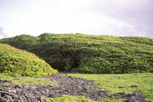 Strong winds have pruned and shaped these Pisonia trees (Pisonia grandis) on Vostok Island, Line Islands, Kiribati. Original field note: Vostok and Ducie Atoll are the only two islands in the world which have only 1 tree species!